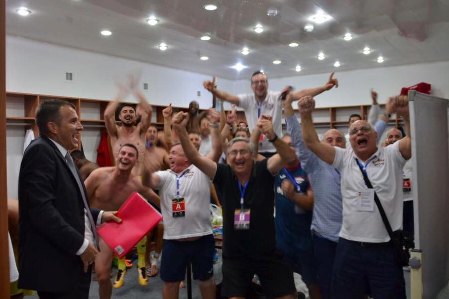 Balzan FC players and officials celebrate their Club's historic qualification to the second round of the UEFA Europa League, after beating Keşla FK 5-3 on aggregate at Dalga Arena, Baku Azerbaijan on 19 July 2018.